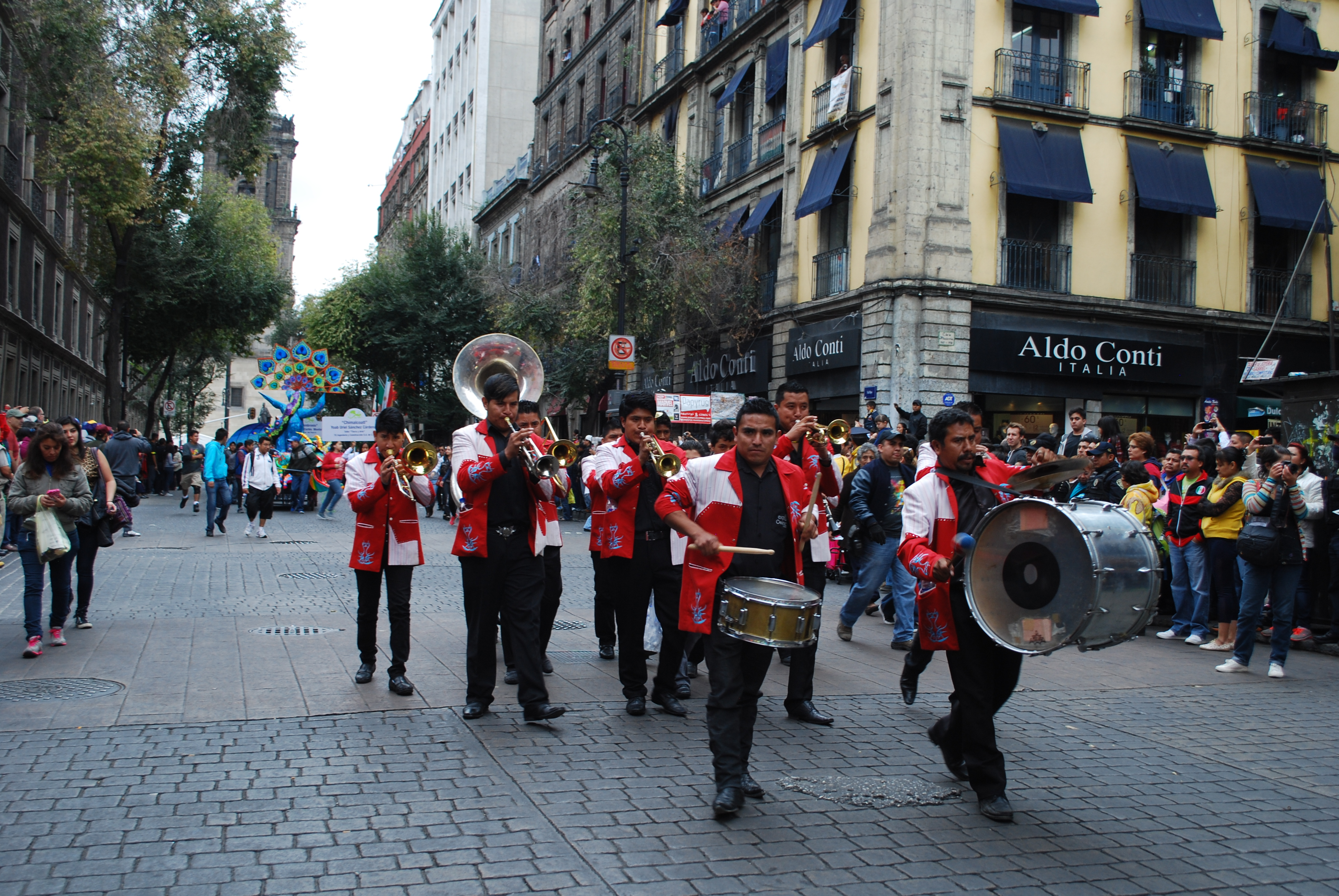 Banda Reflejo Sinaloense at the 2015 Monumental Alebrije Parade in Mexico City